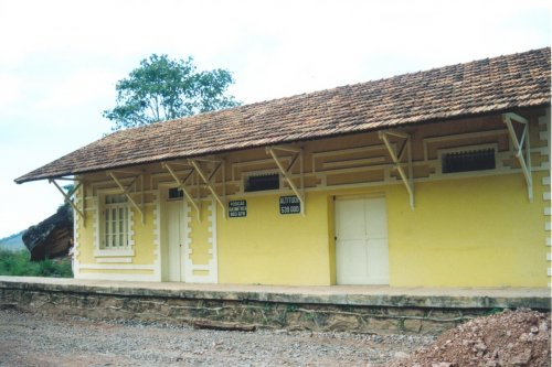 Churches in the district of Furquim, Minas Gerais, Brazil.